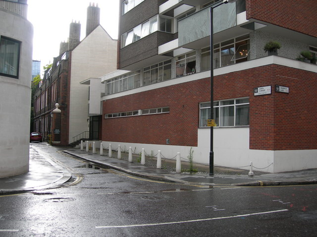 Amen Corner, EC4 Leading to Amen Court. Picture taken at the junction of Warwick Lane.